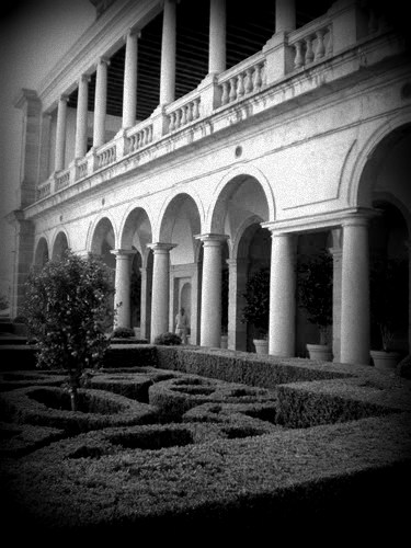 A Black and White Photograph from Spain